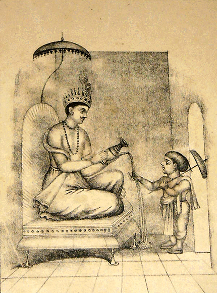 The following illustrations are from the book entitled "The Ten Principal Avataras of the Hindus: A Short History of Each Incarnation and Directions for the Representations of the Murtis as Tableaux Vivants" by Sourindo Mohun Tagore, published in 1880 in Calcutta.